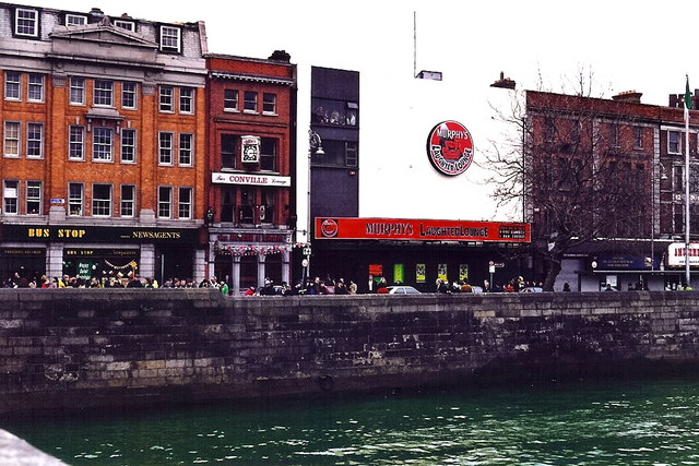 Dublin - Eden Quay buildings - St Patrick's Day - 1998 Note that the River Liffey is dyed green for the moment, just as the river in Chicago is for St Patrick's Day.